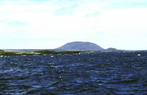 A large tuff cone rises near Punta Calle on the southern coast of Marchena Island beyond fresh-looking lava flows west of the cone in the foreground. The low shield volcano forming Marchena Island contains one of the largest calderas of the Galápagos Islands. In contrast to other Galápagos volcanoes, the 6 x 7 km caldera and its outer flanks have been largely buried by a cluster of pyroclastic cones and associated lava flows. The first historical eruption of Marchena occurred in 1991.